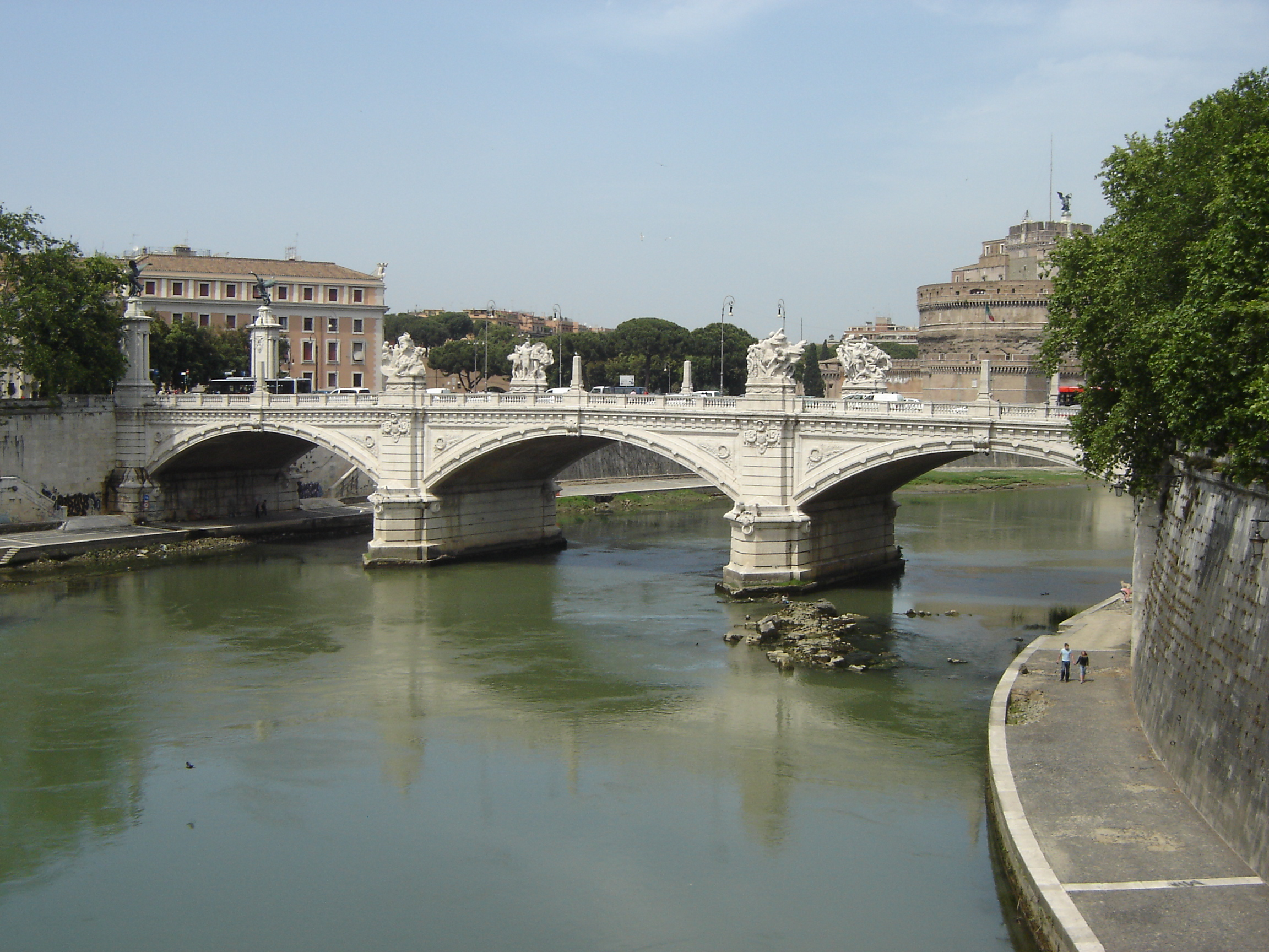 Tiber river in Rome and Ponte Vittorio.